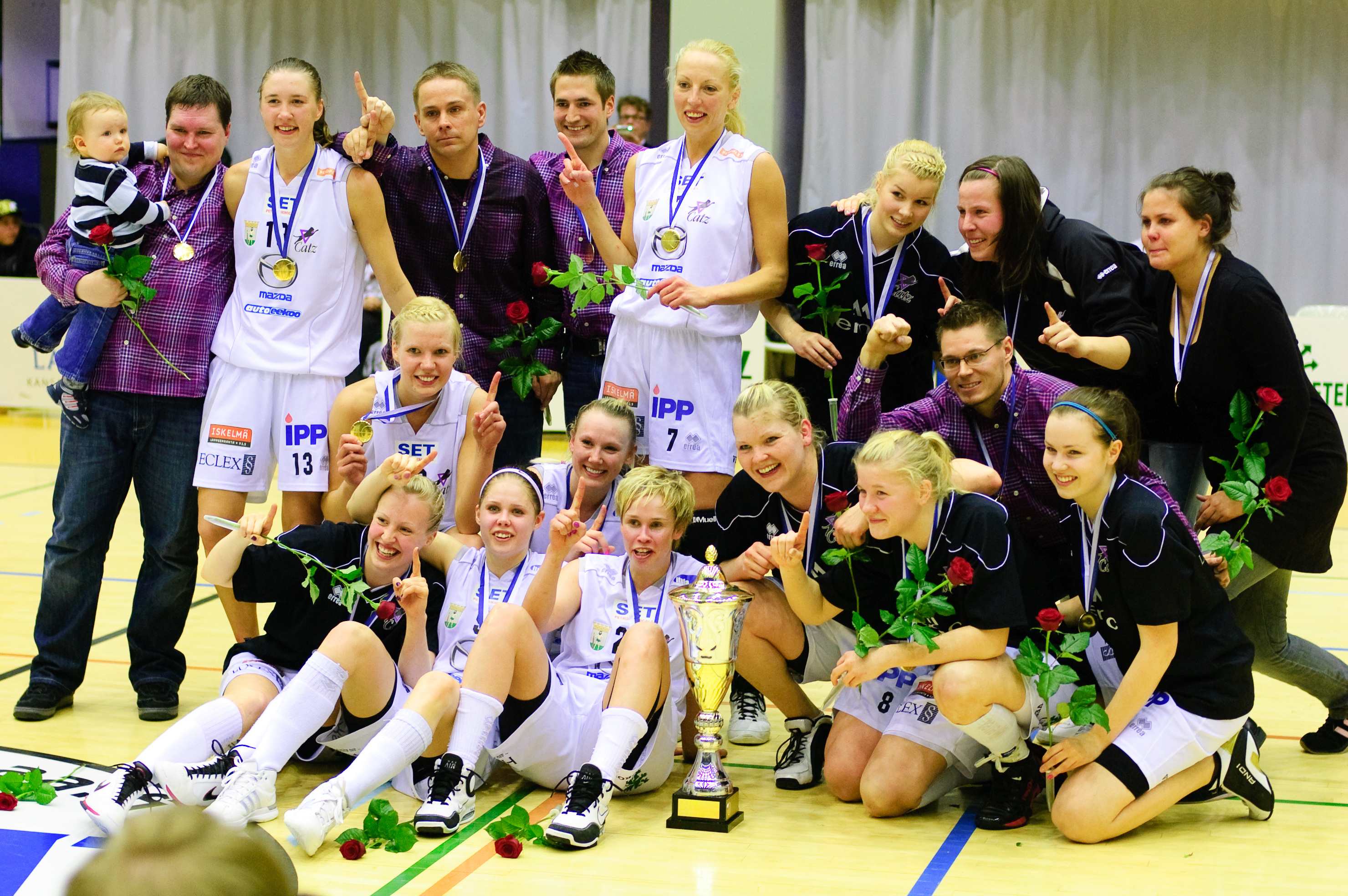 Catz Lappeenranta celebrating the women's Finnish Championship in basketball in Lappeenranta, Finland. Catz beat Peli-Karhut from Kotka by winning three games to two and won the fifth game 90-75.